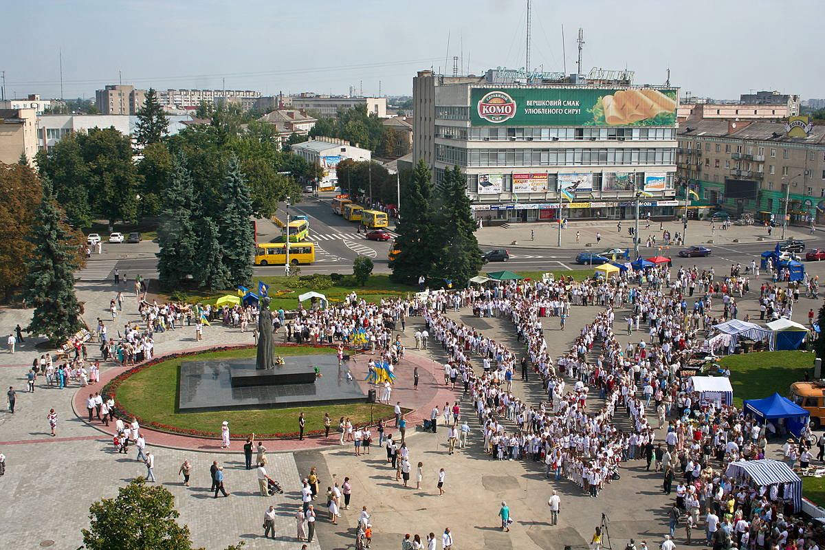 Theatral square